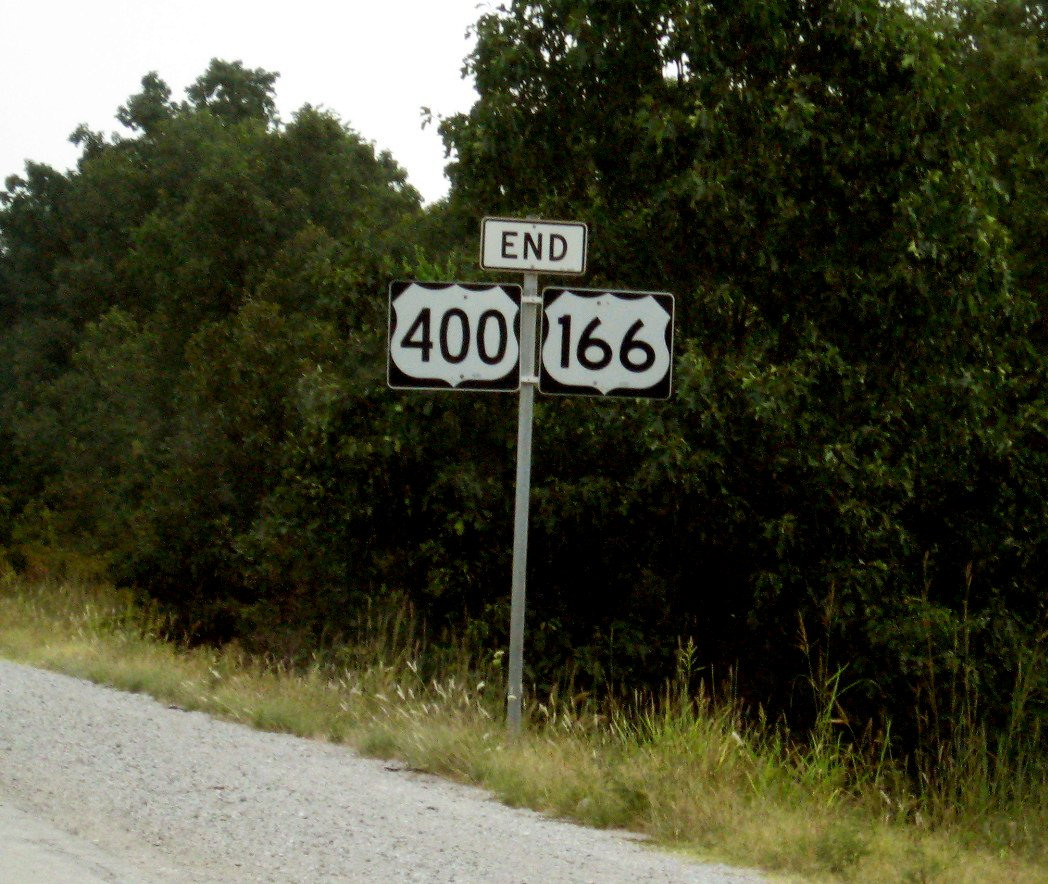 The eastern terminus of U.S. Route 166 and U.S. Route 400 in Newton County, MO.